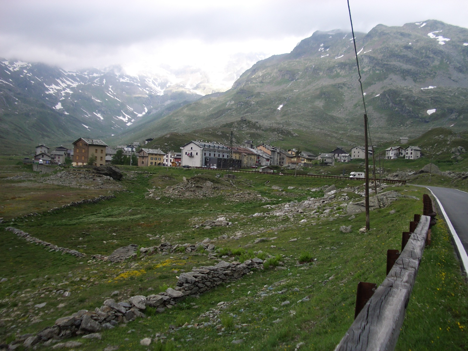 Montespluga, Italy self-made, June 2006